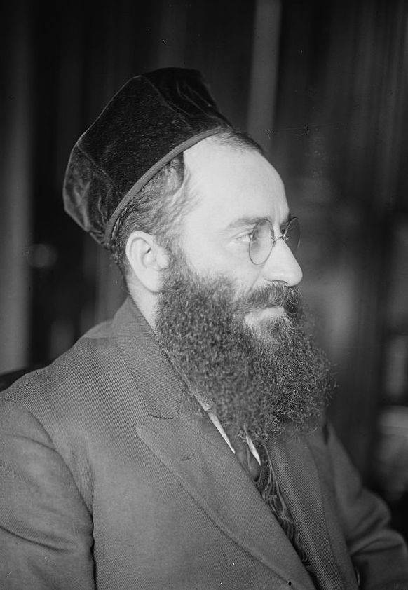 Yossele Rosenblatt in 1918 facing right